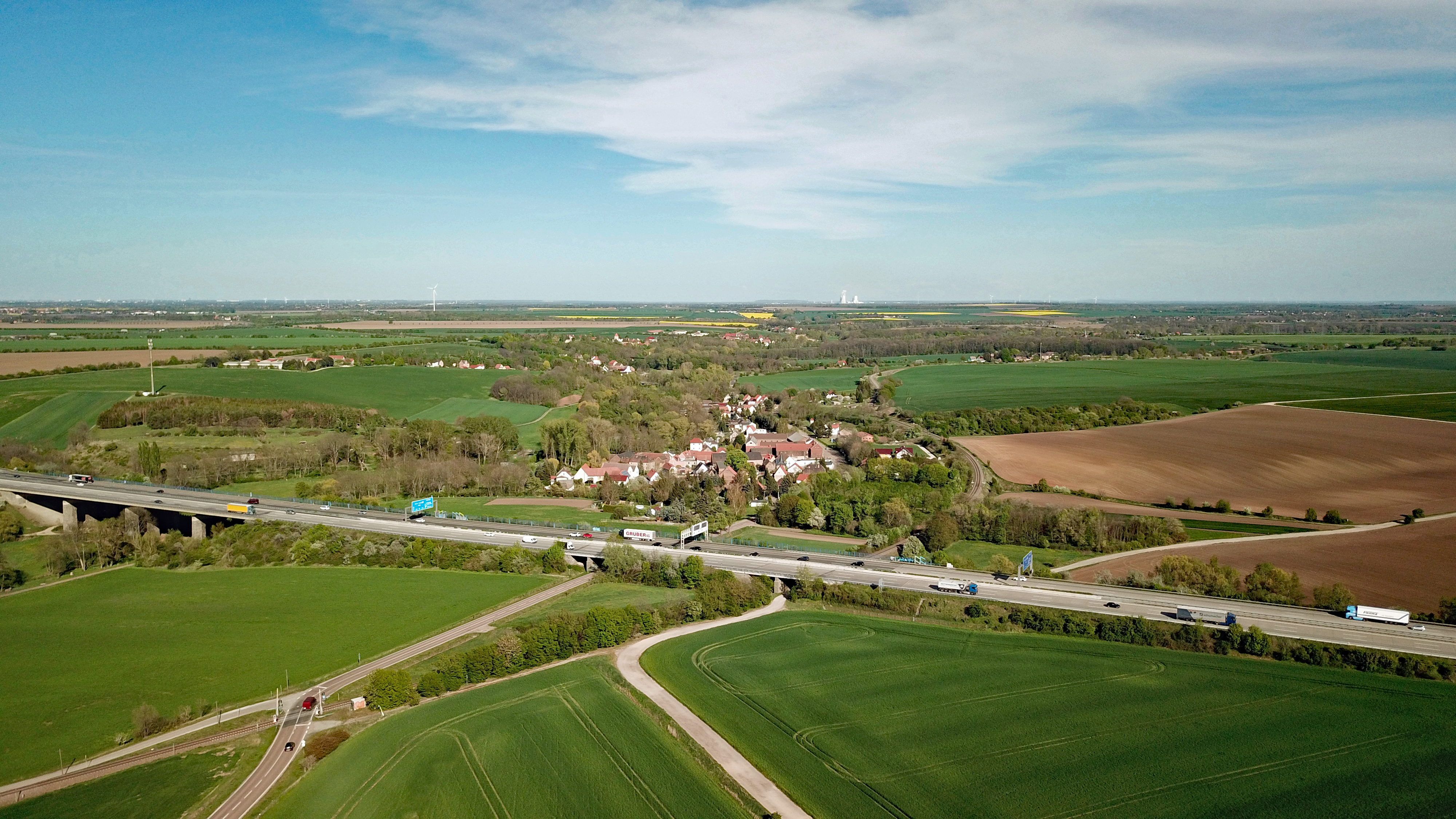 Pörsten, Lützen, Saxony-Anhalt, Germany